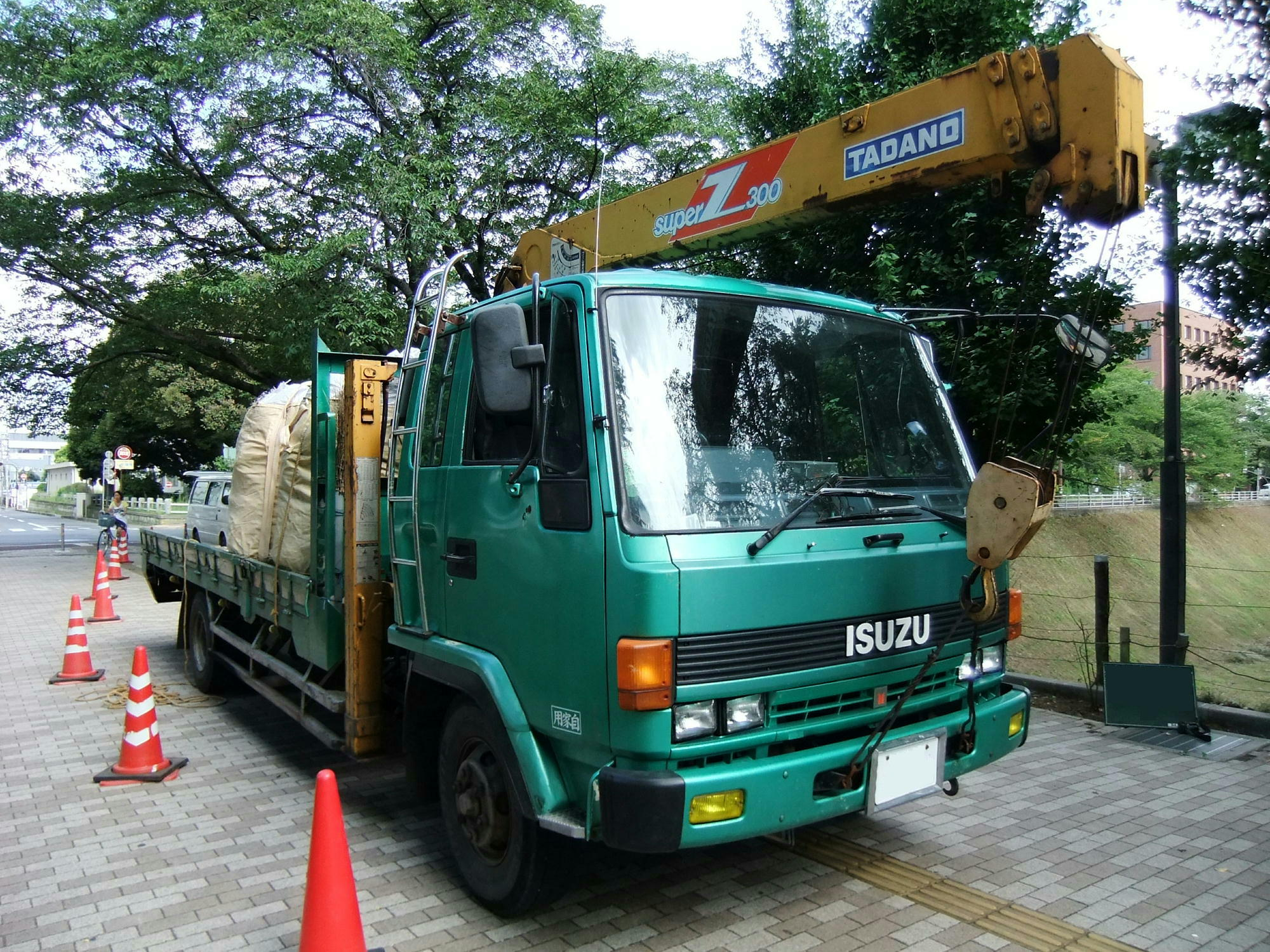 ISUZU F-Series / FORWARD,（There are a country and a region sold as F-series excluding a Japanese market, too.）